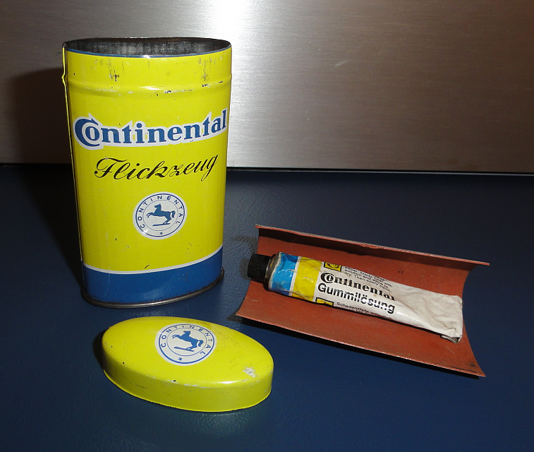 Bicycle repair kit "Promptus" of Continental AG from the 50th